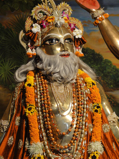 Murti of Advaita Acarya, ISKCON Mayapur